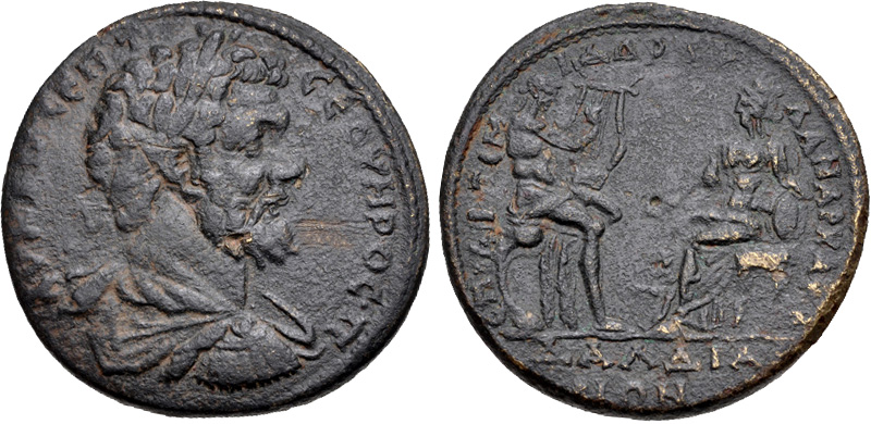 LYDIA, Daldis. Septimius Severus. AD 193-211. Æ (33mm, 23.34 g, 6h). Artemidorus, archon. AV KAIC CЄΠT CЄOYHPOC Π, laureate, draped, and cuirassed bust right / ЄΠI APTЄM-IΔΩPOY-ΛAN APX A[...], Apollo Mystes seated right, playing lyre, and Magna Mater (Cybele) seated left on throne, holding patera over lion to left and resting elbow upon drum; ΔAΛΔIA/NΩN in two lines in exergue. This Artemidorus is likely the famous diviner of Daldis, or possibly a similarly-named offspring.